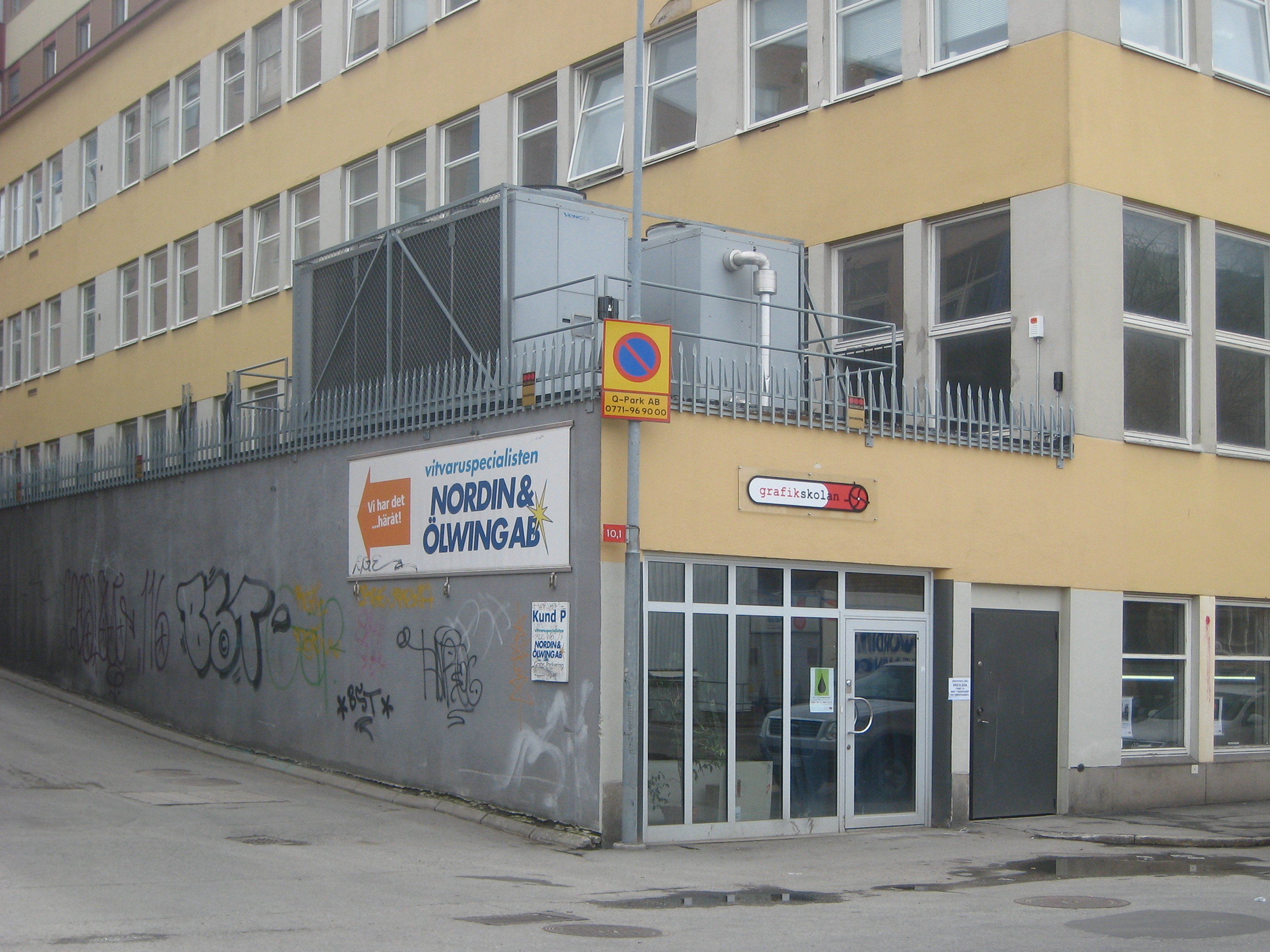 Grafikskolan i Stockholm.